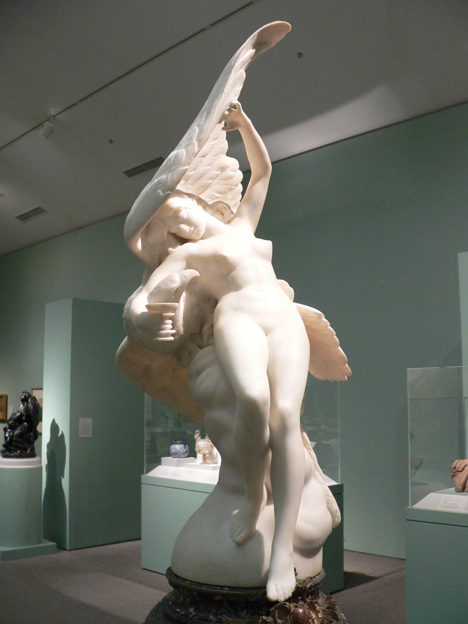 Jean Coulon, Celestial Hebe, c. 1886 Marble